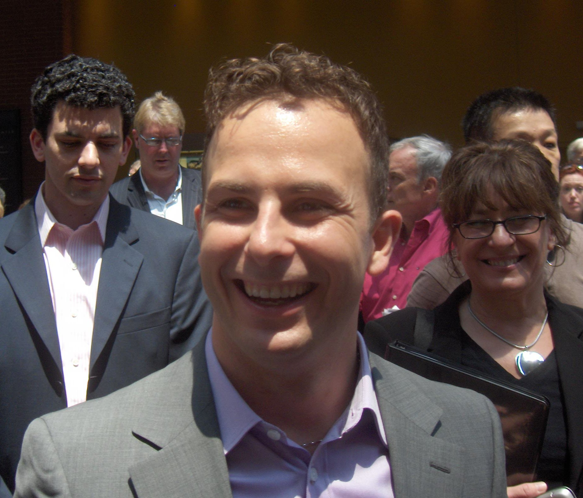 Yannick Nézet-Séguin (born 6 March 1975, Montreal) is a French Canadian conductor. In June, 2010, it was announced that as of 2012, he will be the music director of the Philadelphia Orchestra, and he will be guest conducting during the 2010-2011 season.